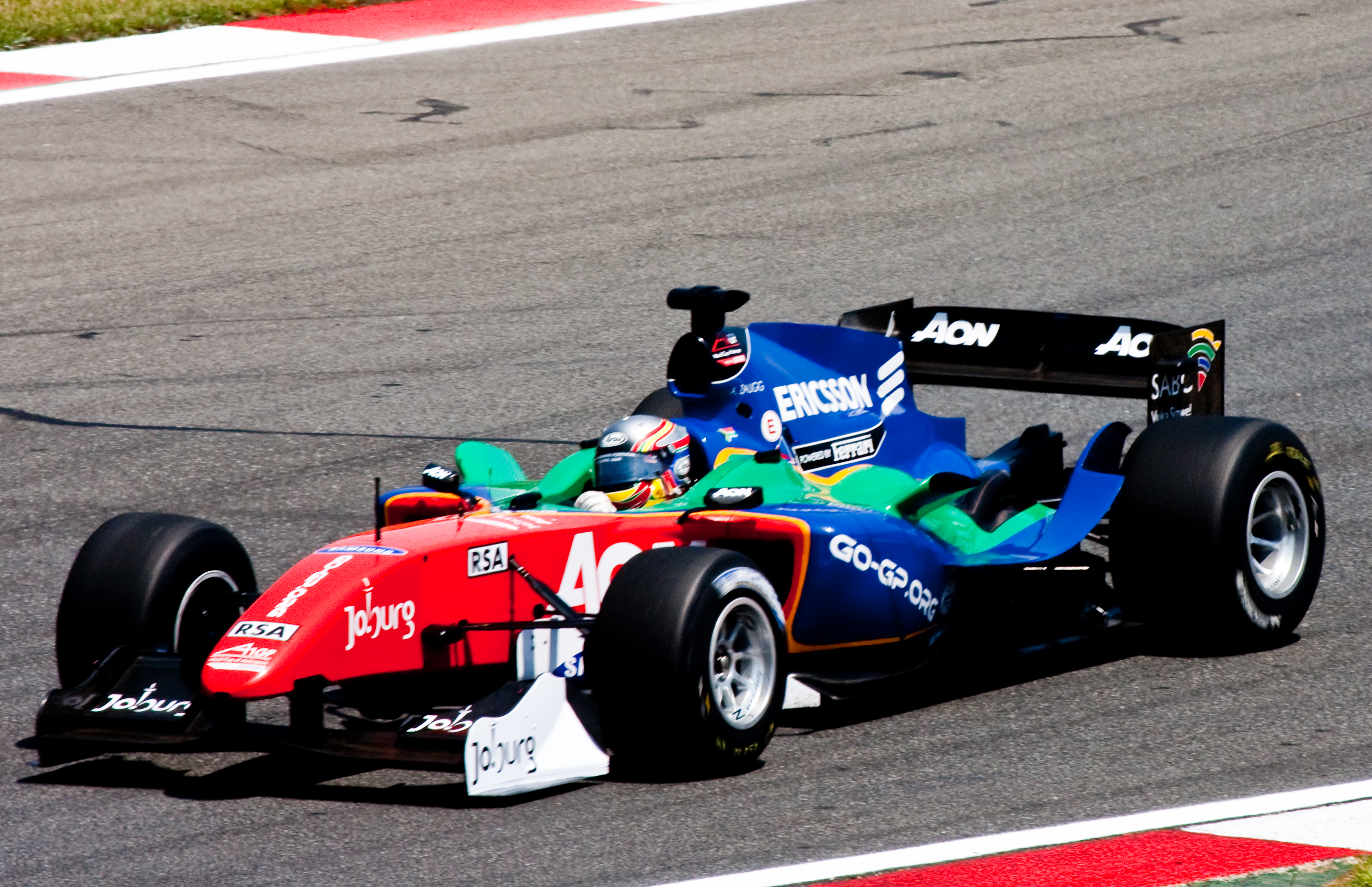 Team South Africa @ A1 Grand Prix Kyalami South Africa 2009